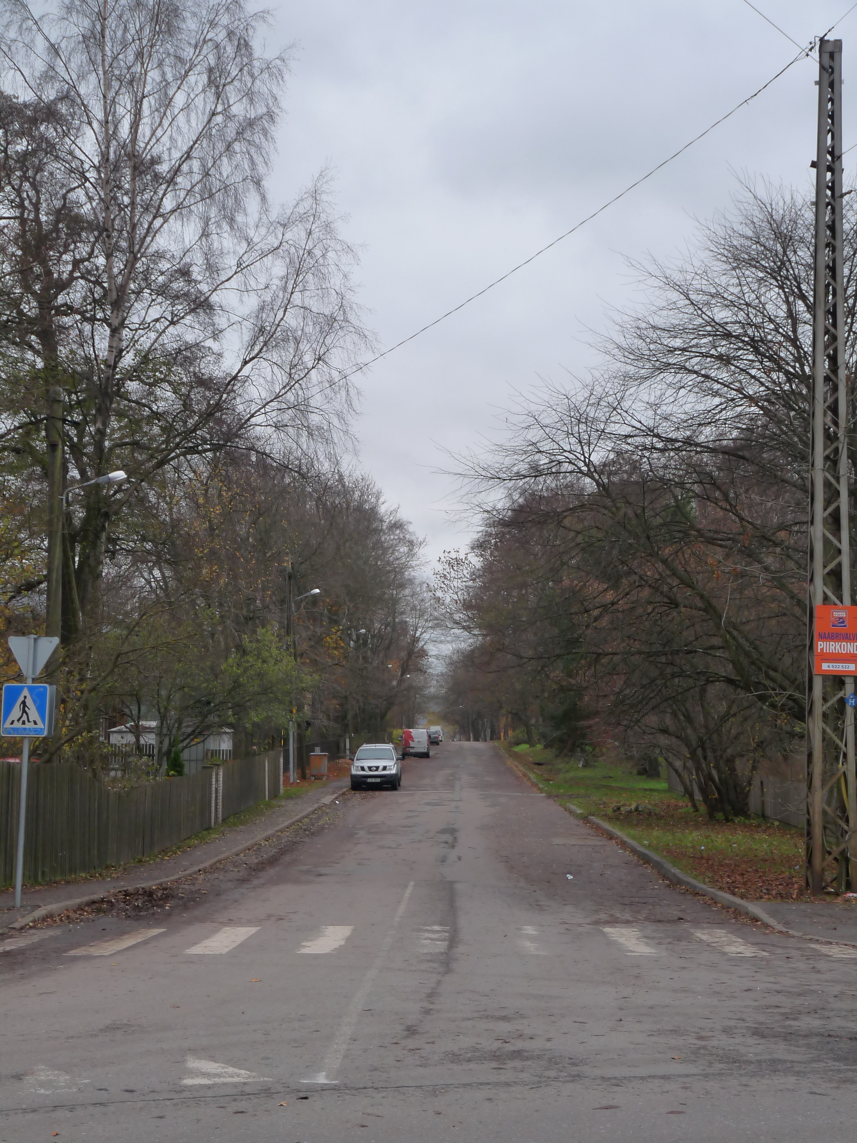 Süsta street in Tallinn, Estonia